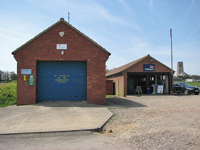 IRB Station and RNLI Shop at Happisburgh, Norfolk, England. This station has now fallen into the sea due to the coastal erosion in the area.